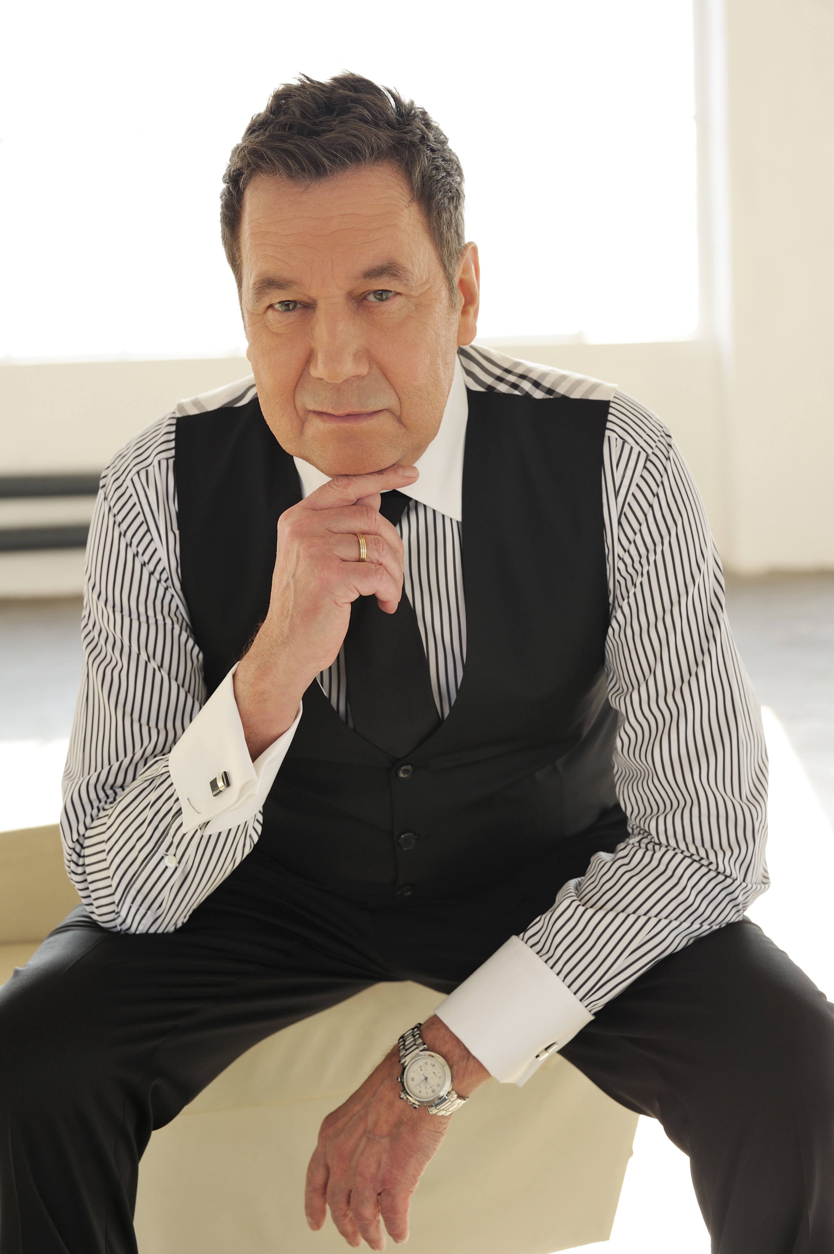 Roland Kaiser for his new album Seelenbahnen.